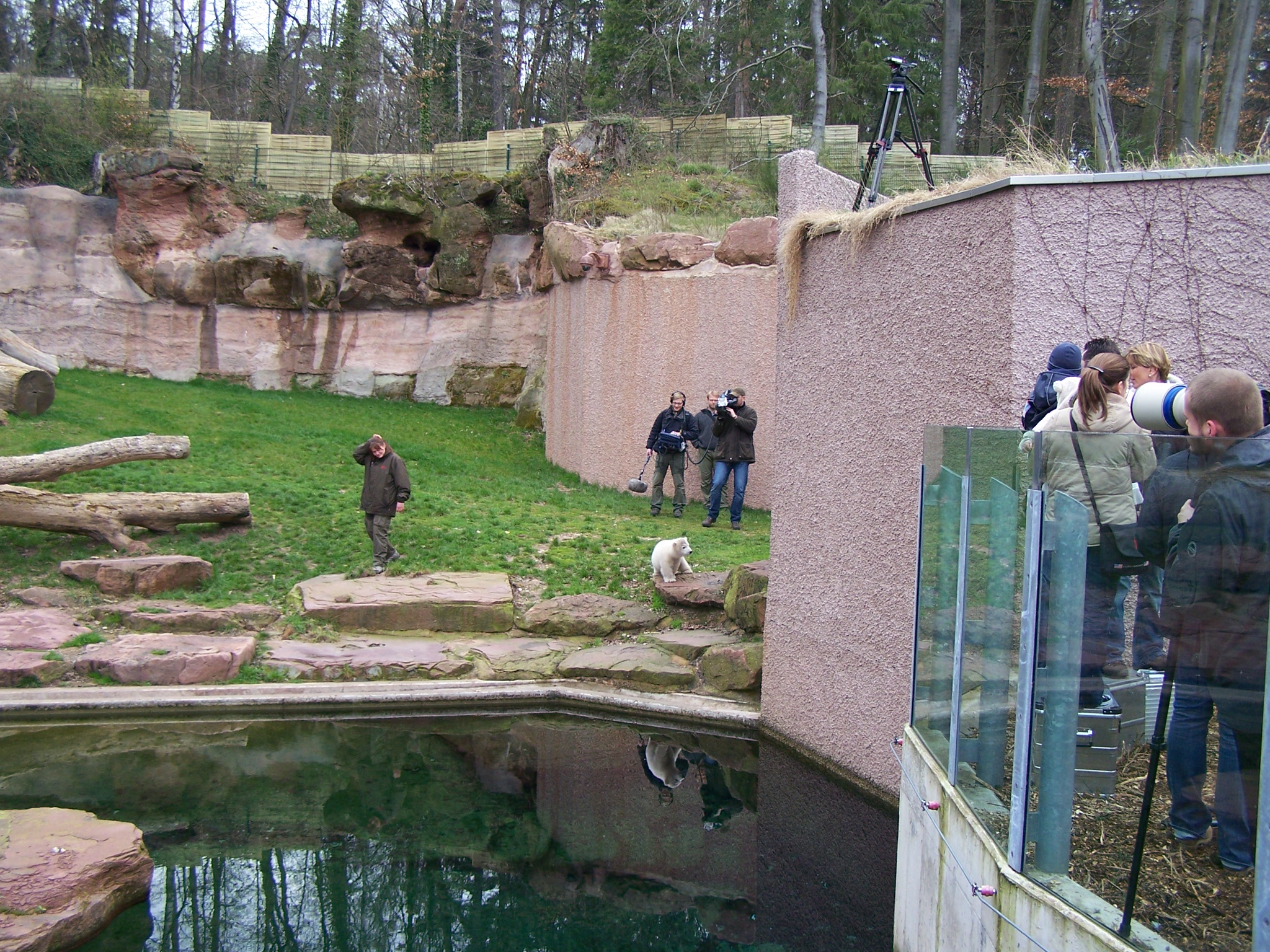 Media circus surrounding Polar bear Flocke in the Aquapark of Tiergarten Nürnberg, Nuremberg, Germany.